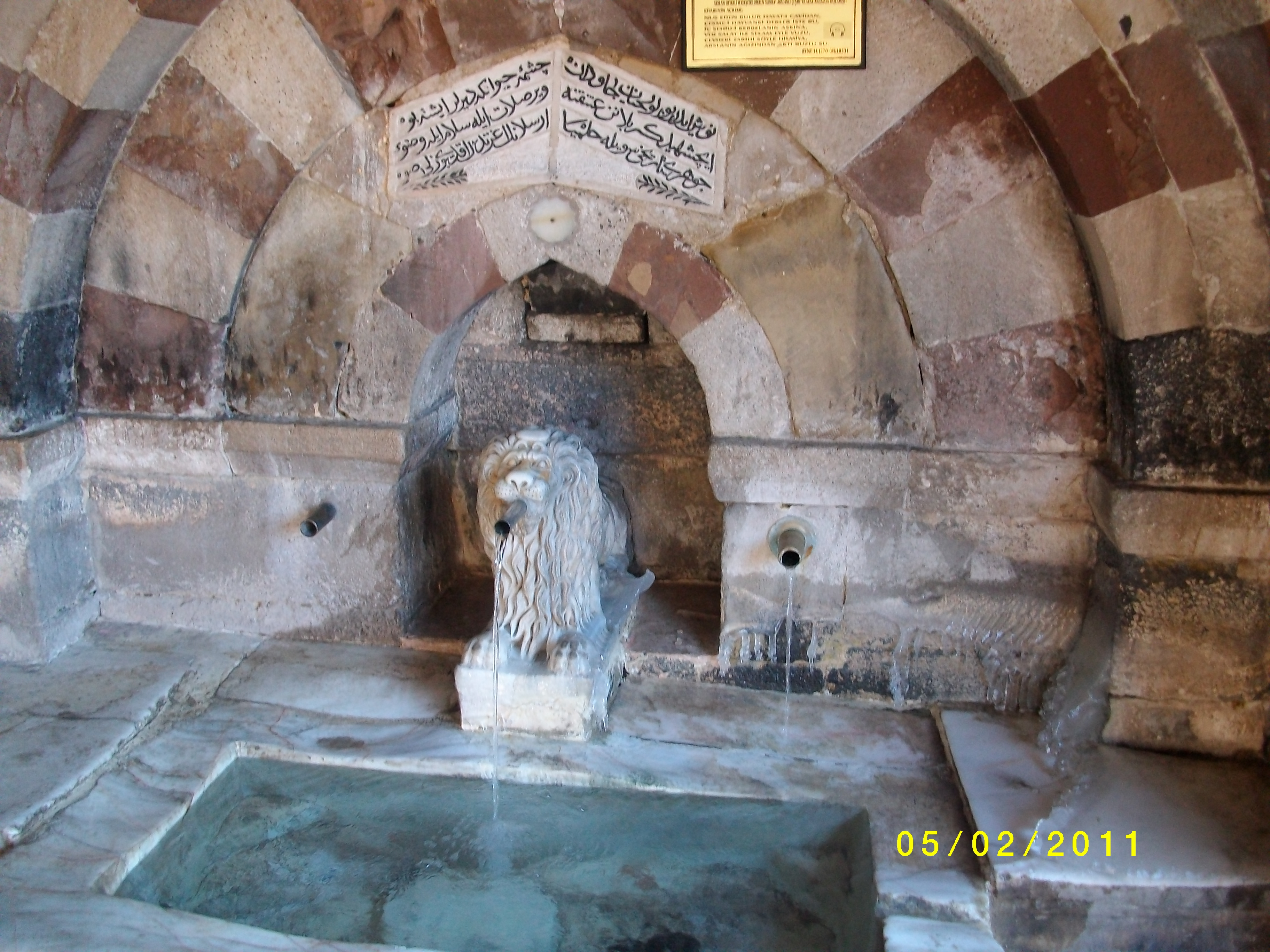 Hajibaktash museum